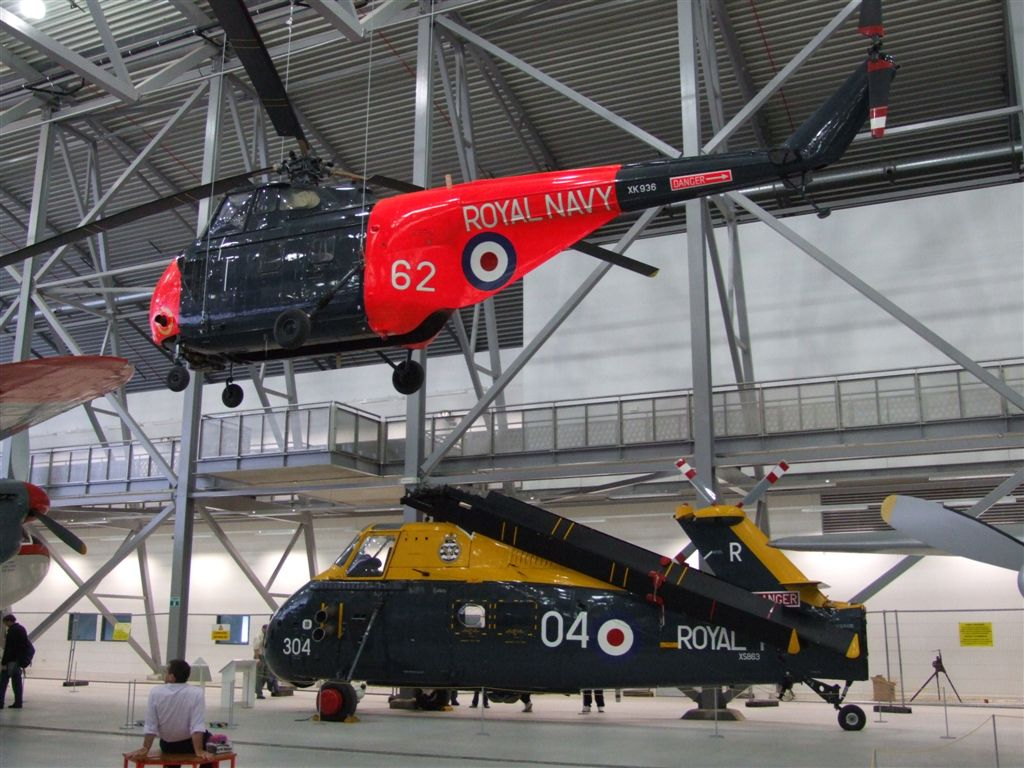 Westland Whirlwind HAS.7 (XK936) (upper) and Westland Wessex HAS.1 (XS863) (lower) in the "big hangar" at Imperial War Museum, Duxford